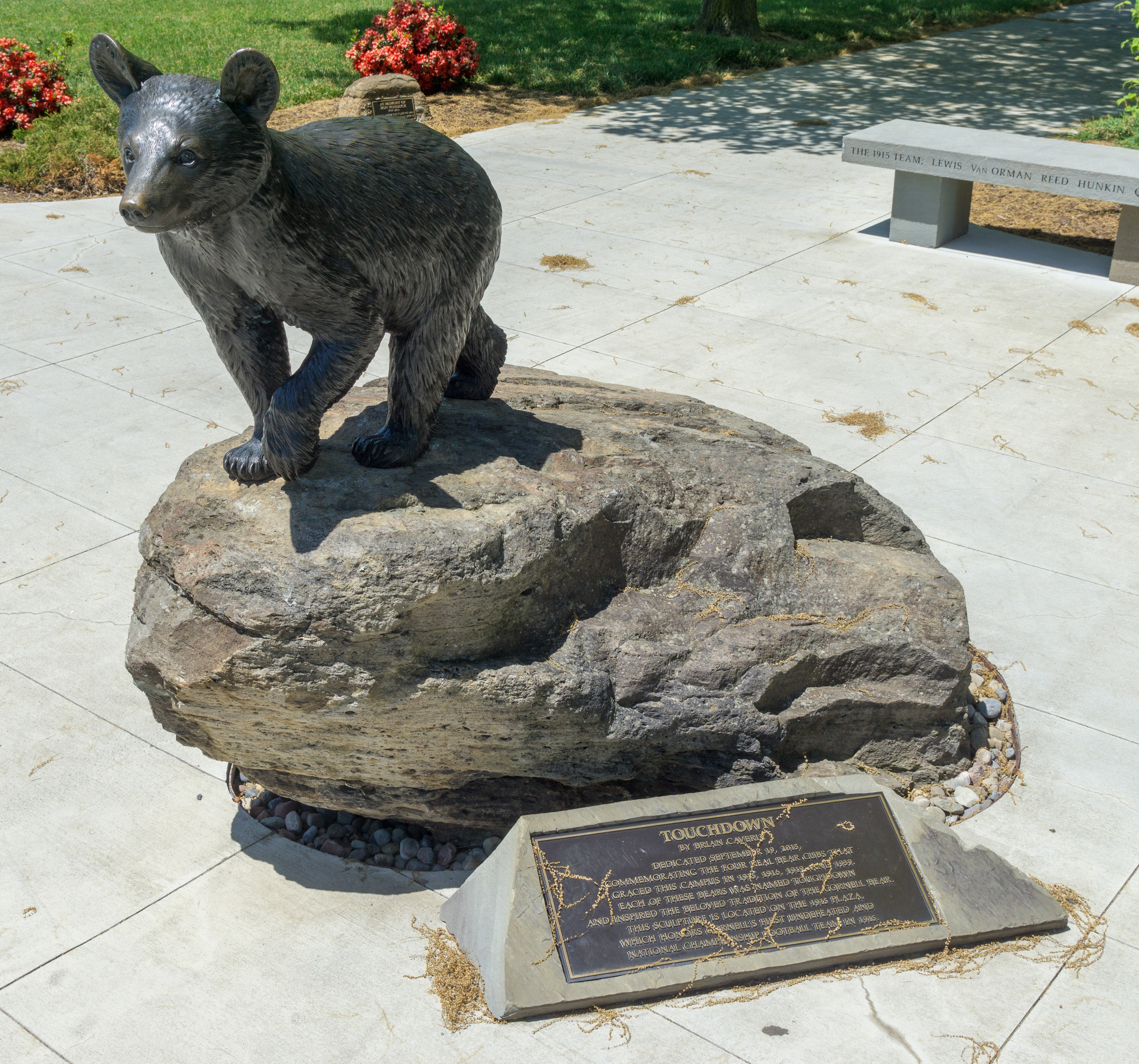 Statue of Touchdown the Cornell University mascot, Ithaca, NY